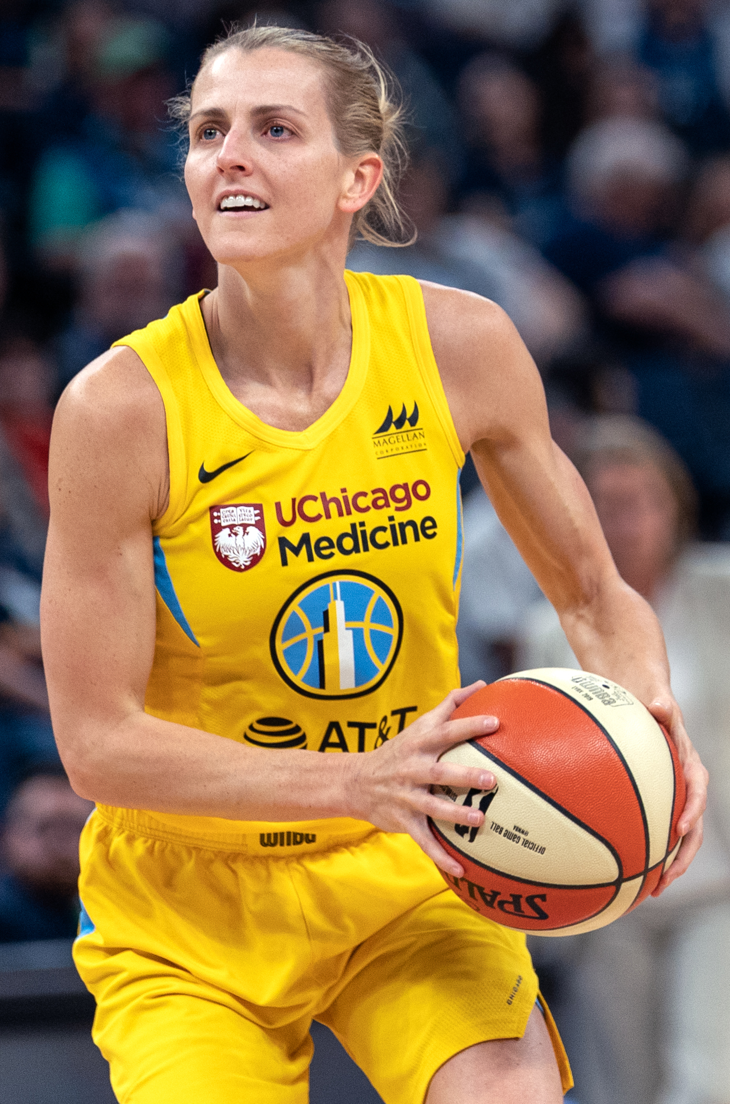 Chicago Sky player Allie Quigley in a game against the Minnesota Lynx